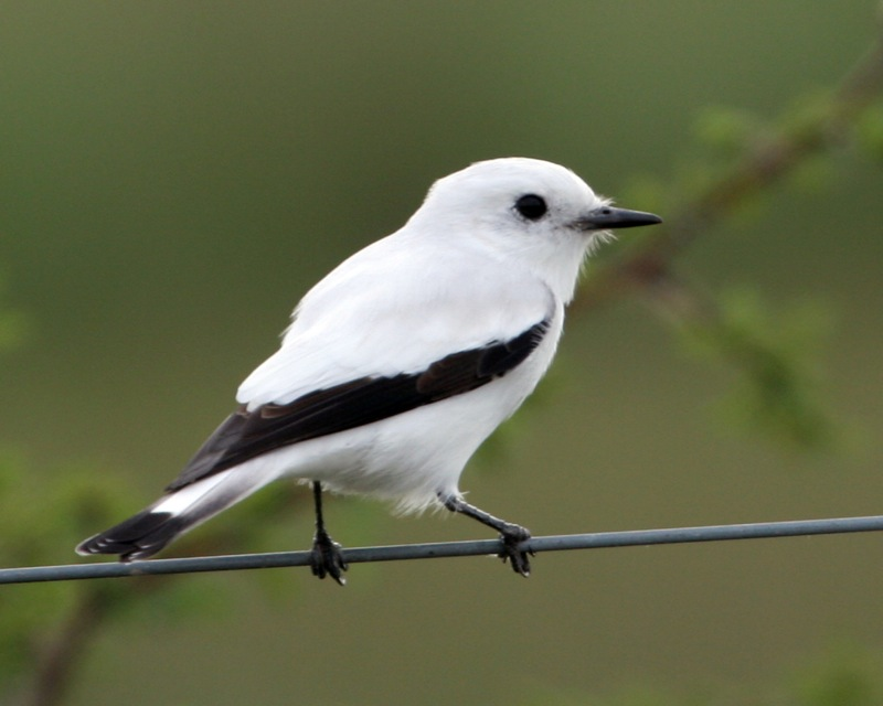 White Monjita (Xolmis irupero) in Islas del Ibicuy, Entre Rios, Argentina.